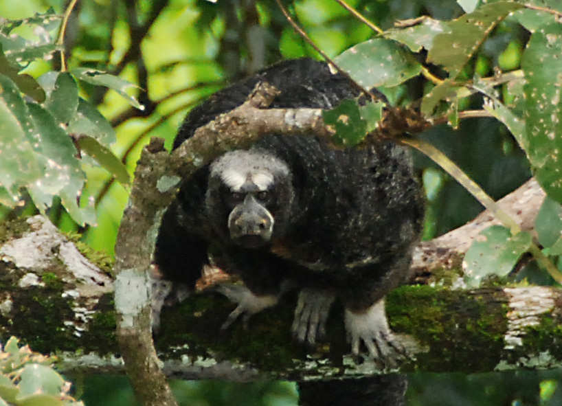 Napo saki (Pithecia napensis) in Yasuni National Park, Equador.